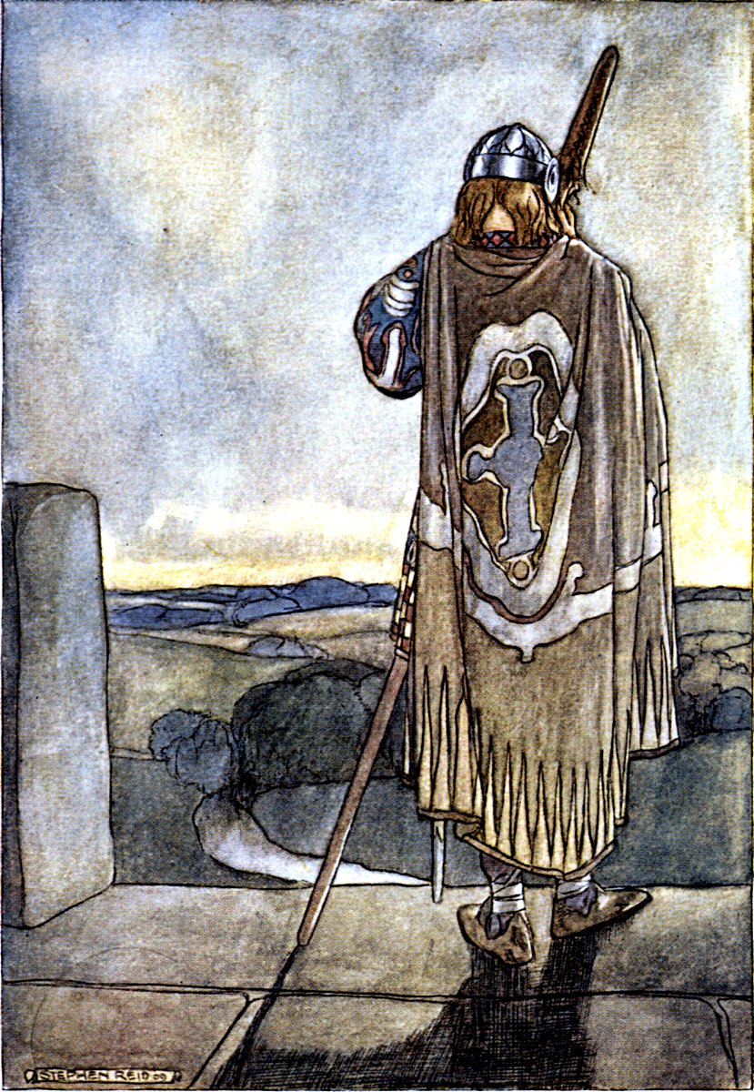 "Finn heard far off the first notes of the fairy harp" - The High Deeds of Finn and other Bardic Romances of Ancient Ireland, by T. W. Rolleston, et al, Illustrated by Stephen Reid